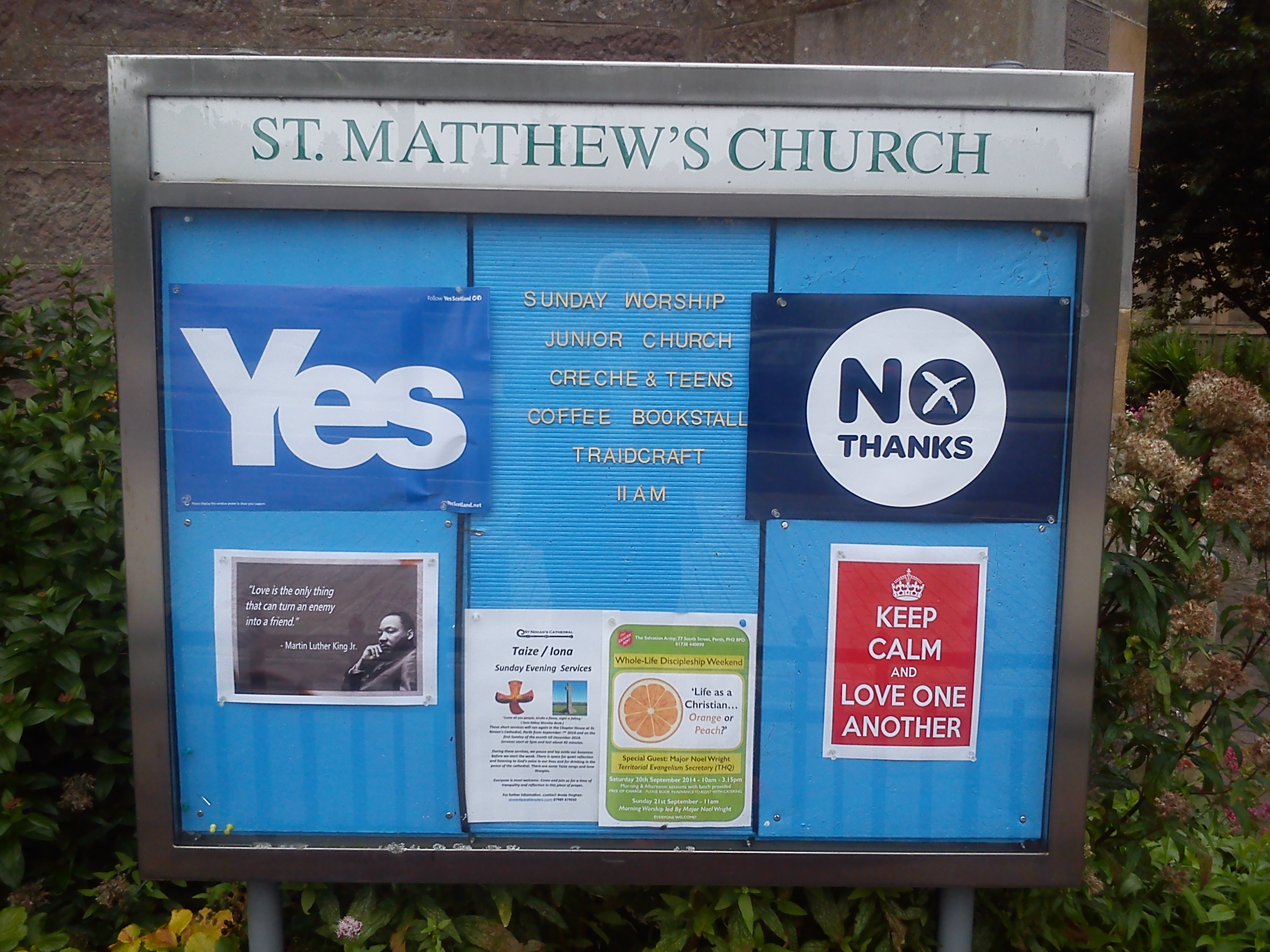 The notice board shows St Matthew's Church In Perth, Scotland is agnostic about the 2014 Scottish independence referendum. That's the (Holy) Spirit... Also on the board is a sign reading "Keep calm and love one another" and a quote from Martin Luther King, Jr.